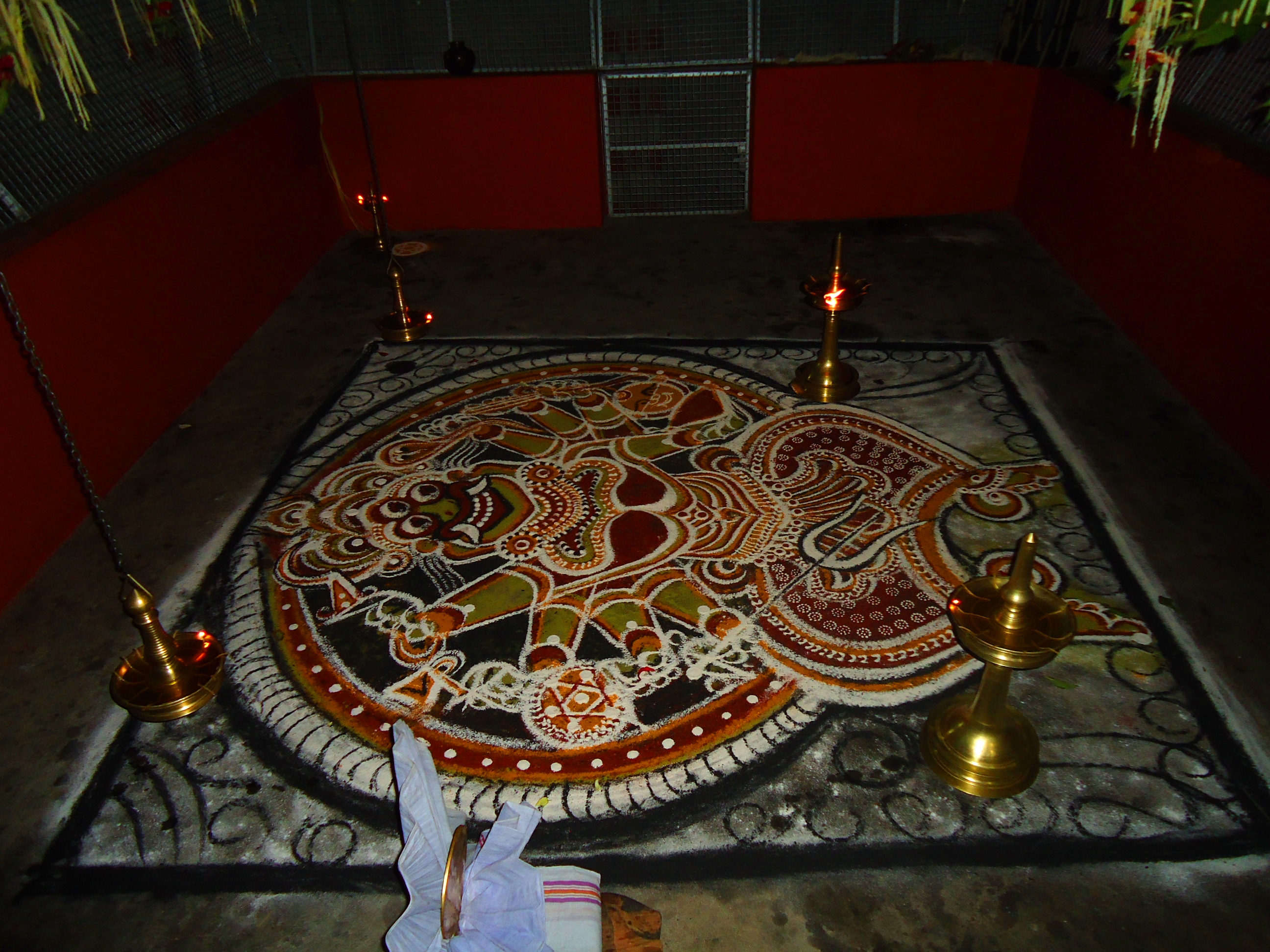 Bhadrakali_Kalam